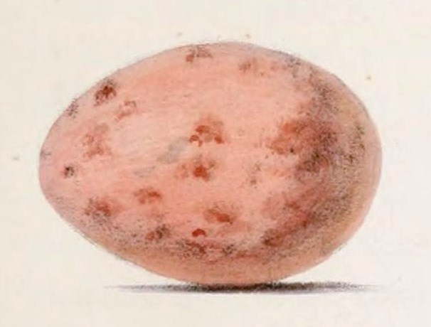 « Cyanocitta melanocyanea » = Cyanocorax melanocyaneus (Bushy-crested Jay) - egg